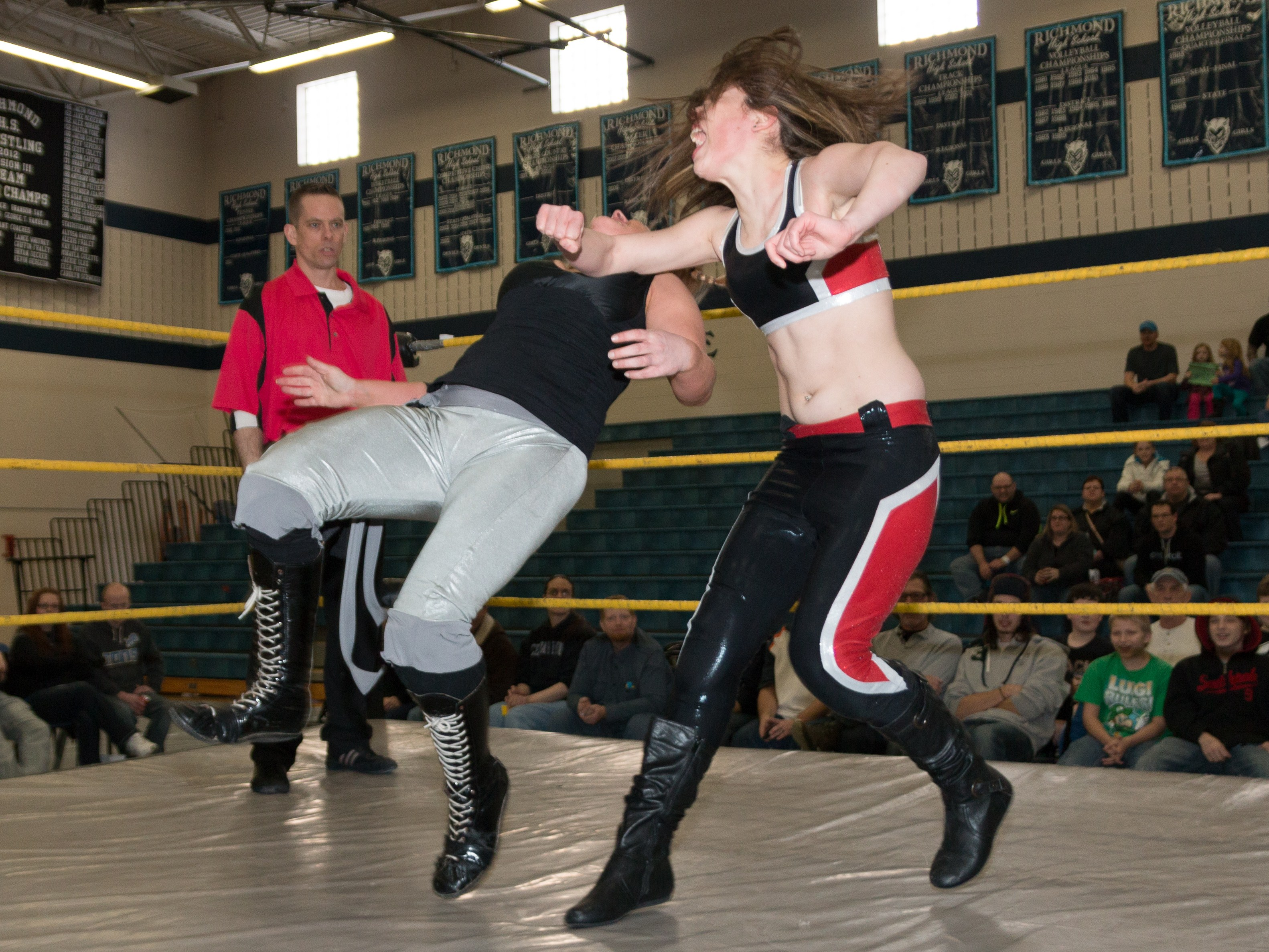 Wrestler Skyler Rose (right) hitting a back elbow in Randi West